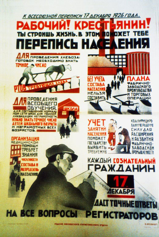 Poster for the 1926 Census in the Soviet Union Anonymous work, of 1926